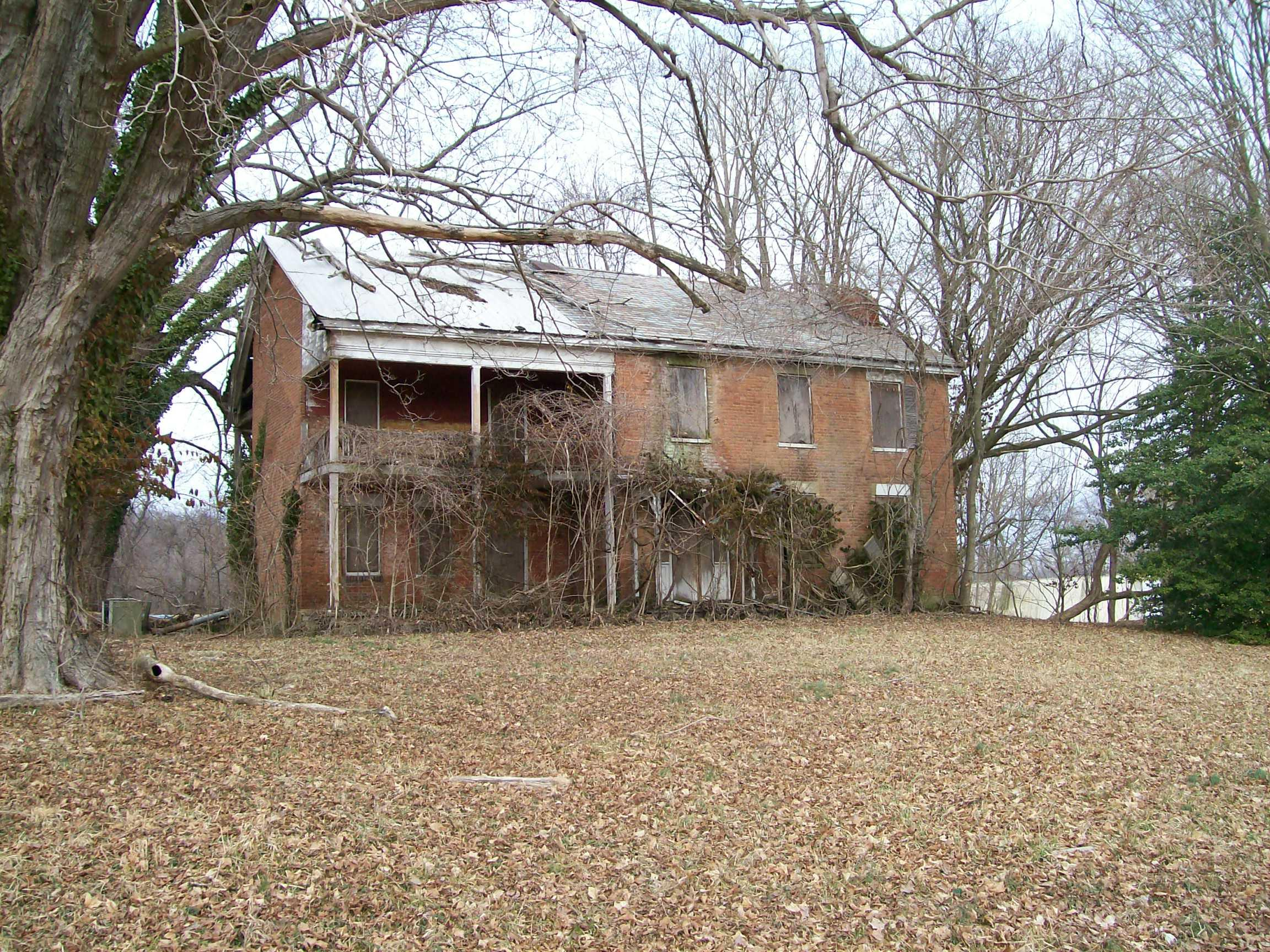 The Walter Curtis House on SR 124 south of Little Hocking, Ohio. The house is photographed showing its southern facade and looks out over the Ohio River. The structure is listed on the NRHP for Washington County. Taken March 10, 2010.